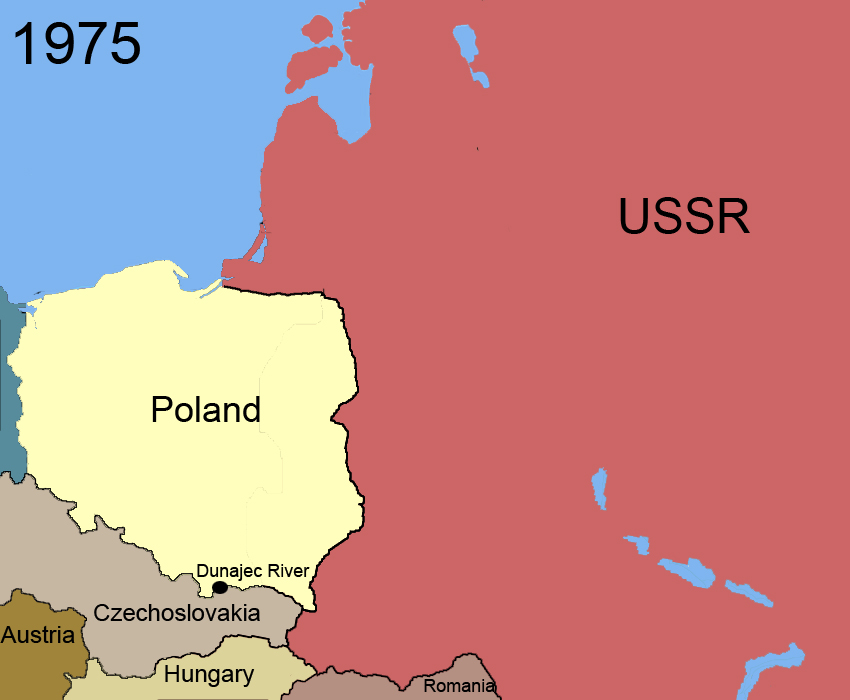 Poland 1975